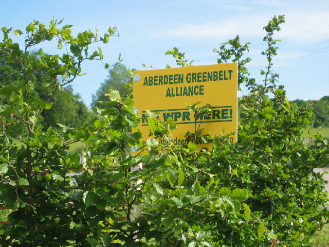 No WPR here No Western peripheral route here. Signs put up by Aberdeen greenbelt alliance protesting at one of the possible routes proposed for the peripheral route.